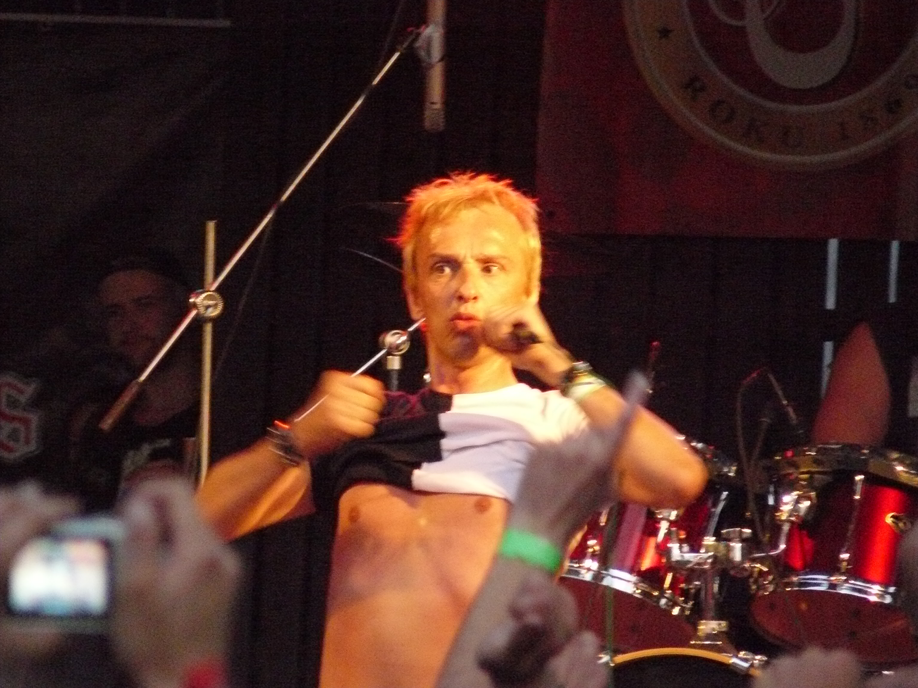 Slovak punk band Zóna A